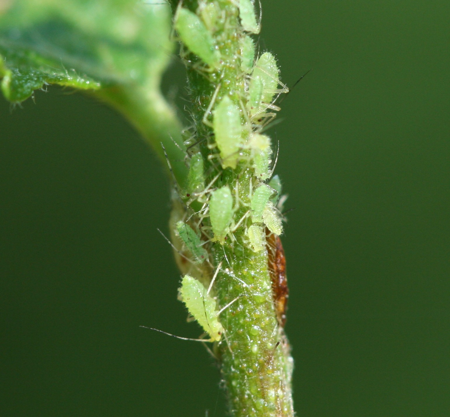 Calaphis flava (Yellow dark-veined birch aphid)